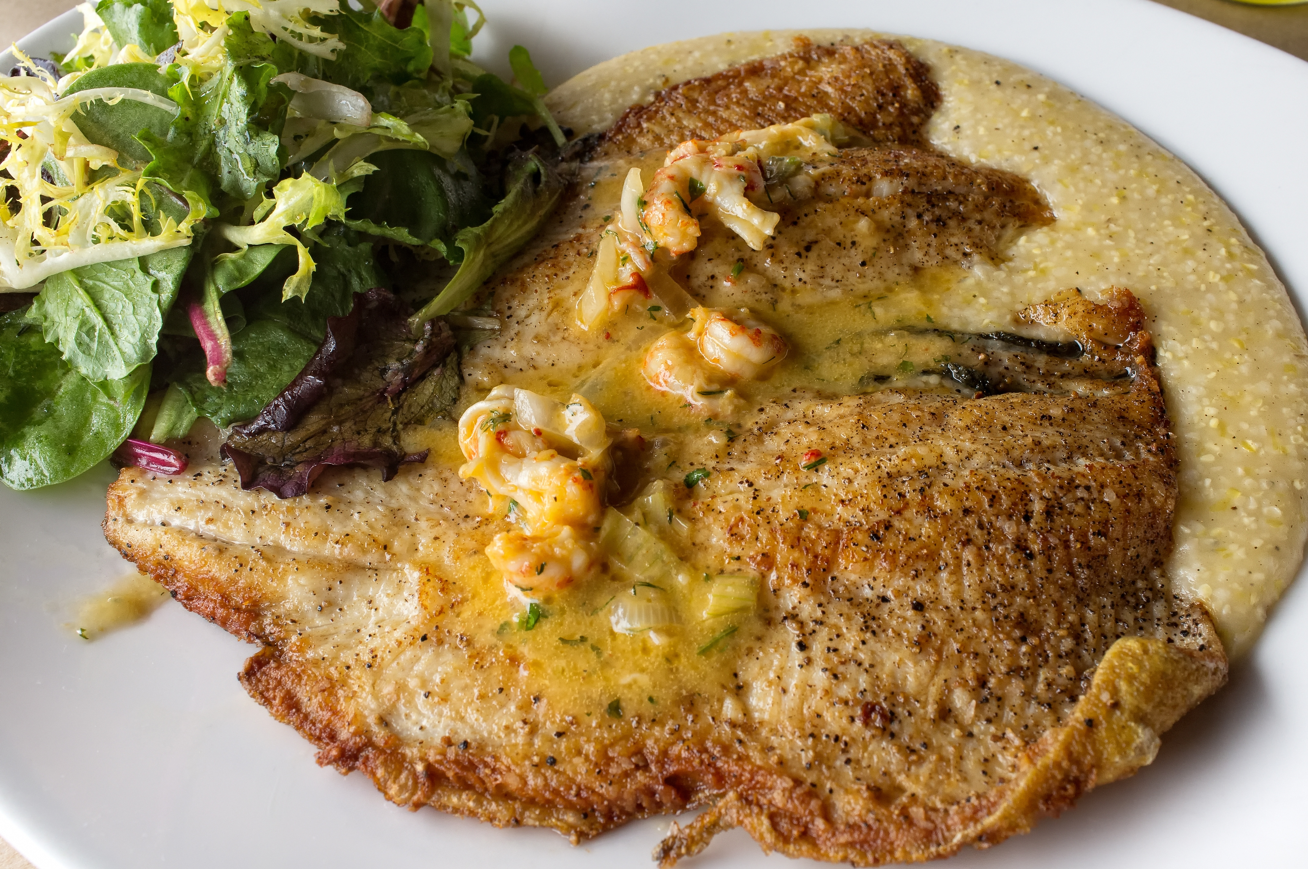 Easter Lunch at Dyron's Lowcountry in Crestline Village, Mountain Brook, Alabama. Pan Seared North Caroline Rainbow Trout with McEwen Grits, local mixed lettuces, crawfish dill beuree, blanc